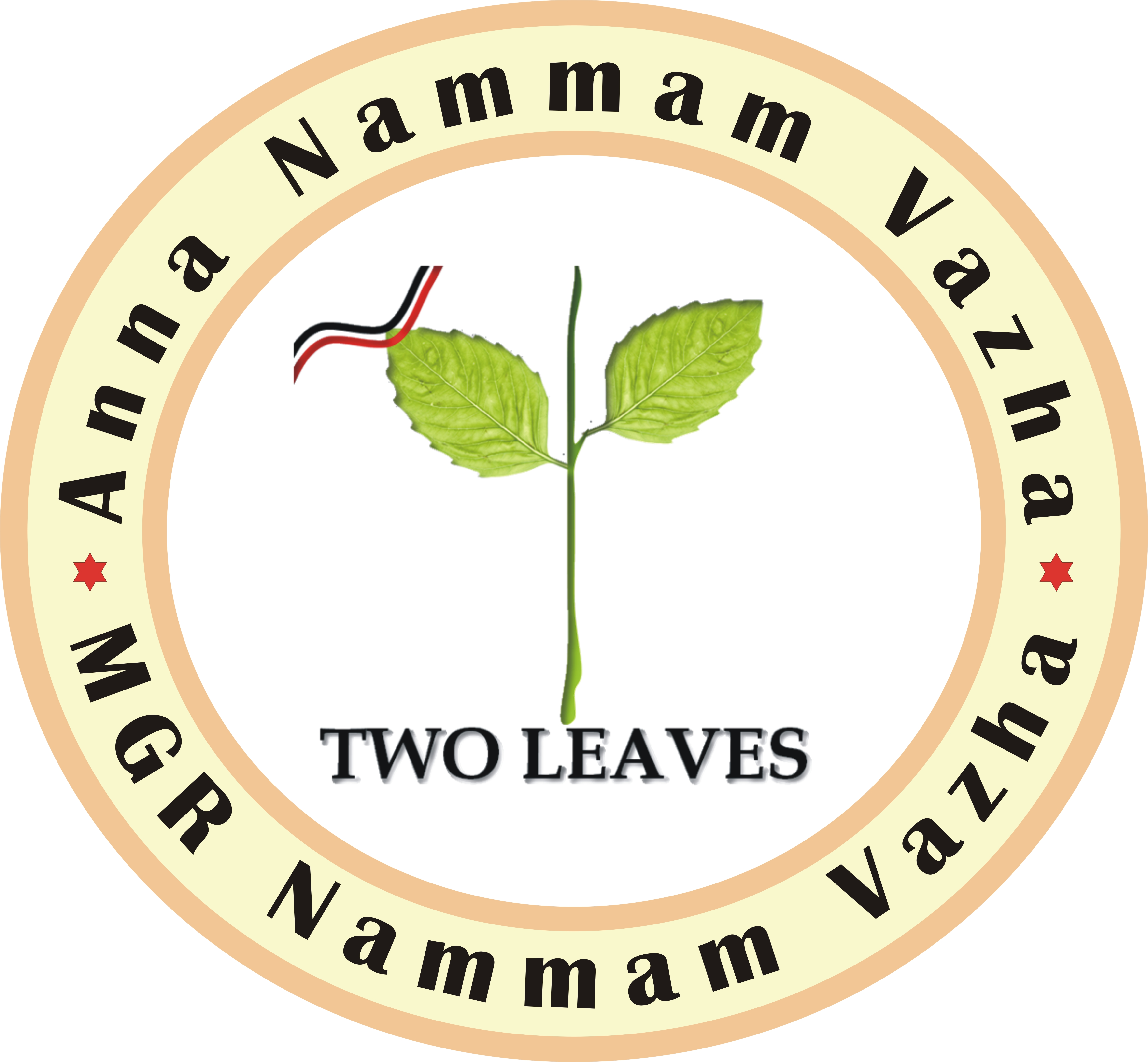 New emblem for All India Anna Dravida Munnetra Kazhagam Party, designed by B. Balamanigandan